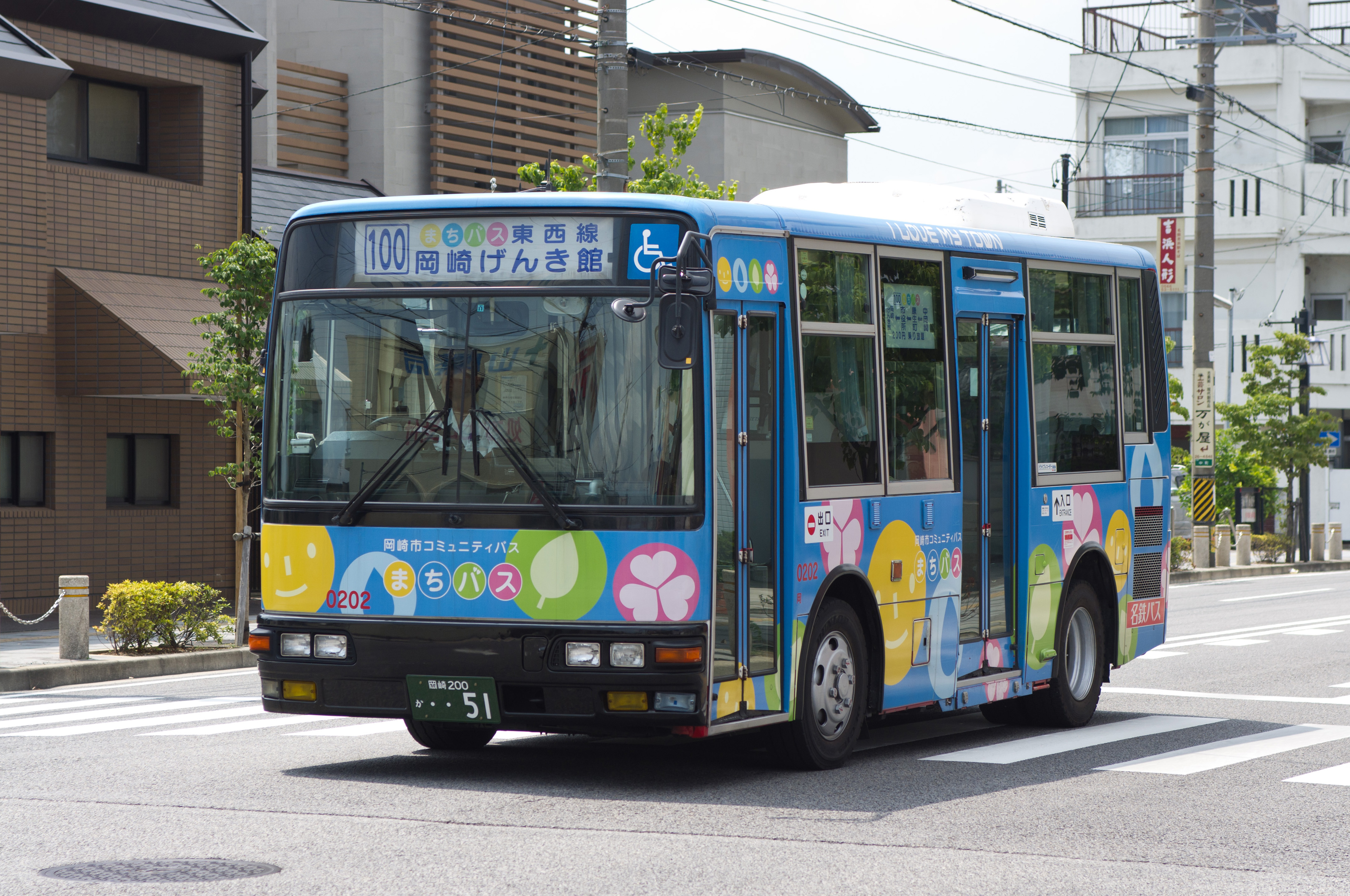 Machi Bus in Okazaki, Aichi, Japan